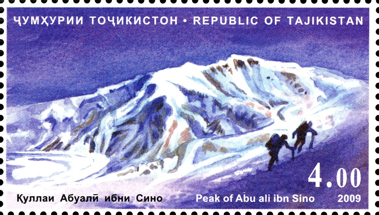 Glaciers of Tajikistan - Abu ali ibn Sino. Stamps of Tajikistan